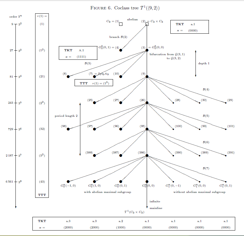 This diagram shows the tree of finite 3-groups of coclass 1, i.e., of maximal class, and the isolated vertex C(9). Important vertices are labelled with their SmallGroups Library identifier in angle brackets. TTT means transfer target type. TKT means transfer kernel type. User:DanielConstantinMayer added png-file "Coclass1Tree3Groups"